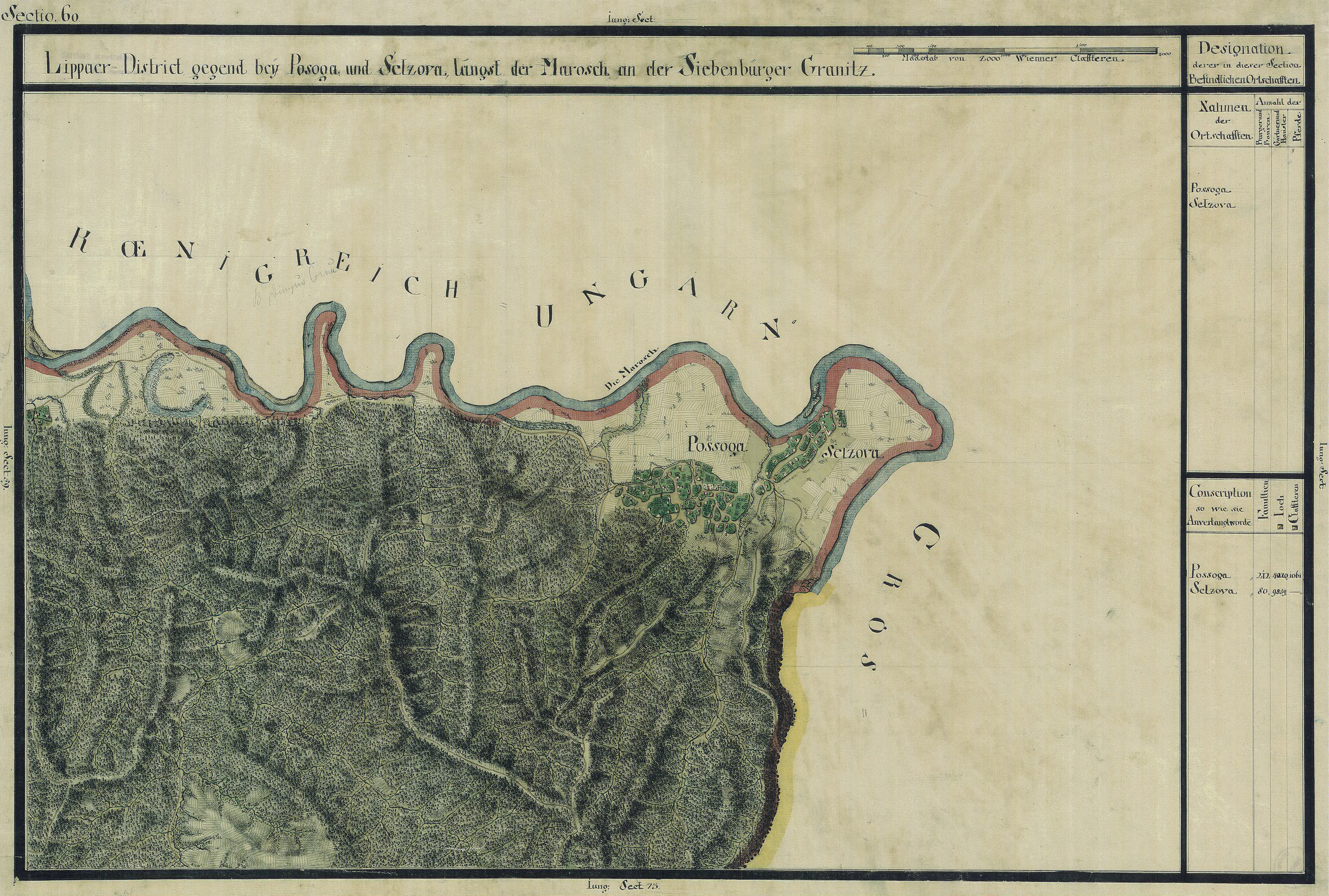 The Banat region in the cadastral maps: Josephinische Landesaufnahme, 1769-72. Josephinische Landaufnahme pg060